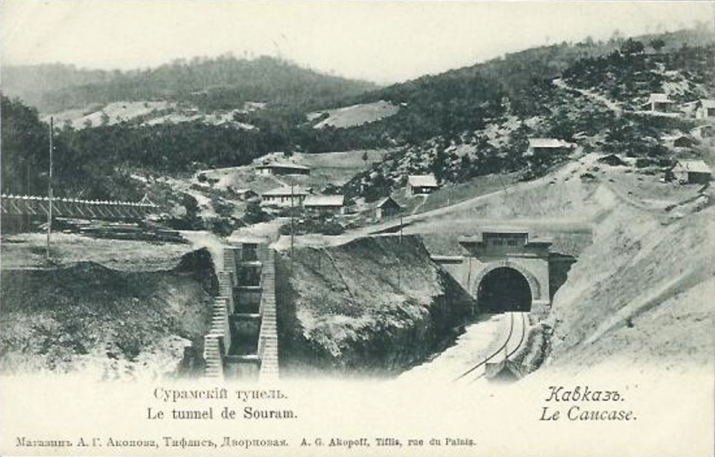 Surami tunnel. An old Russian postcard.